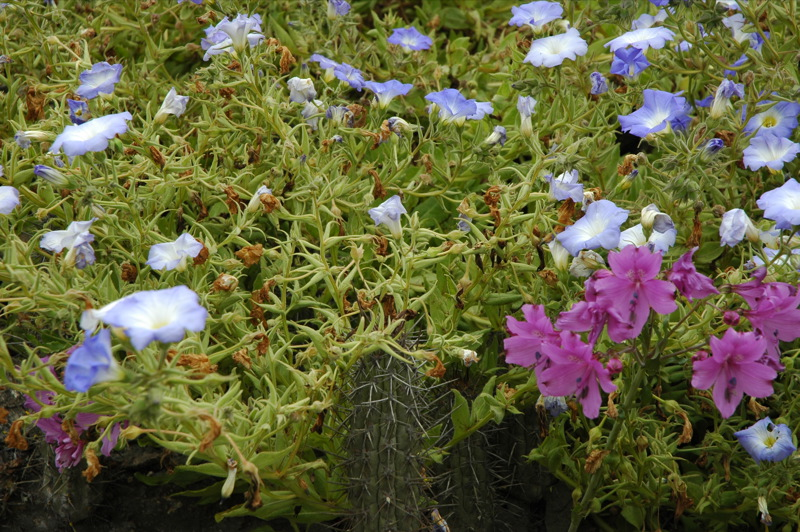 Nolana elegans (blue flowers) and Alstromeria paupercula (purple flowers). Quebrada los Yales, north of Paposo. 25º00'59"S 70º26'41"W 475m altitude.